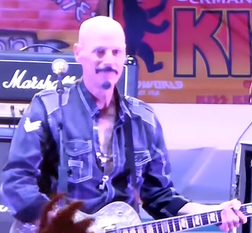 Bob Kulick playing guitar live at KISS Kruise VII 2017